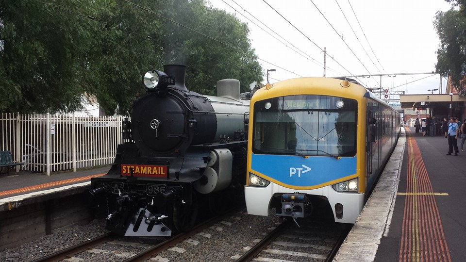 A2 986 during testing